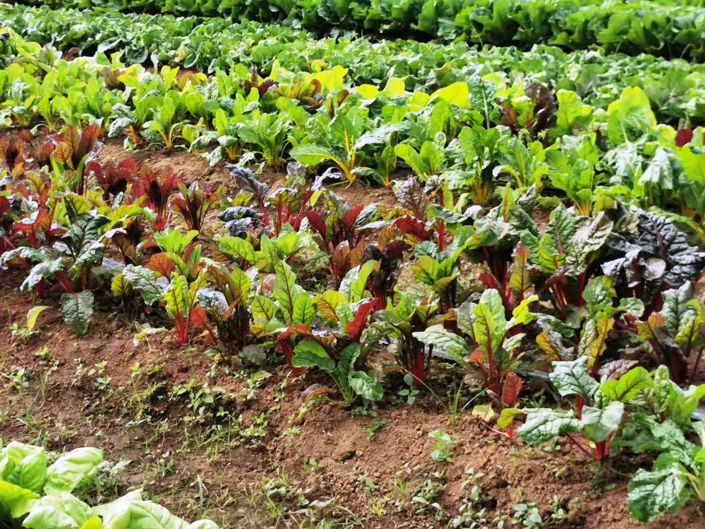 Chard. Taichung, Taiwan.